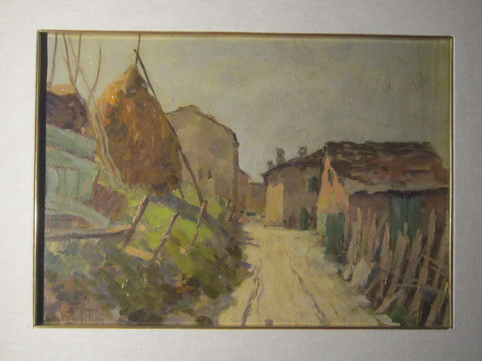 Baragazza, 1938, painting of Antonino Sartini